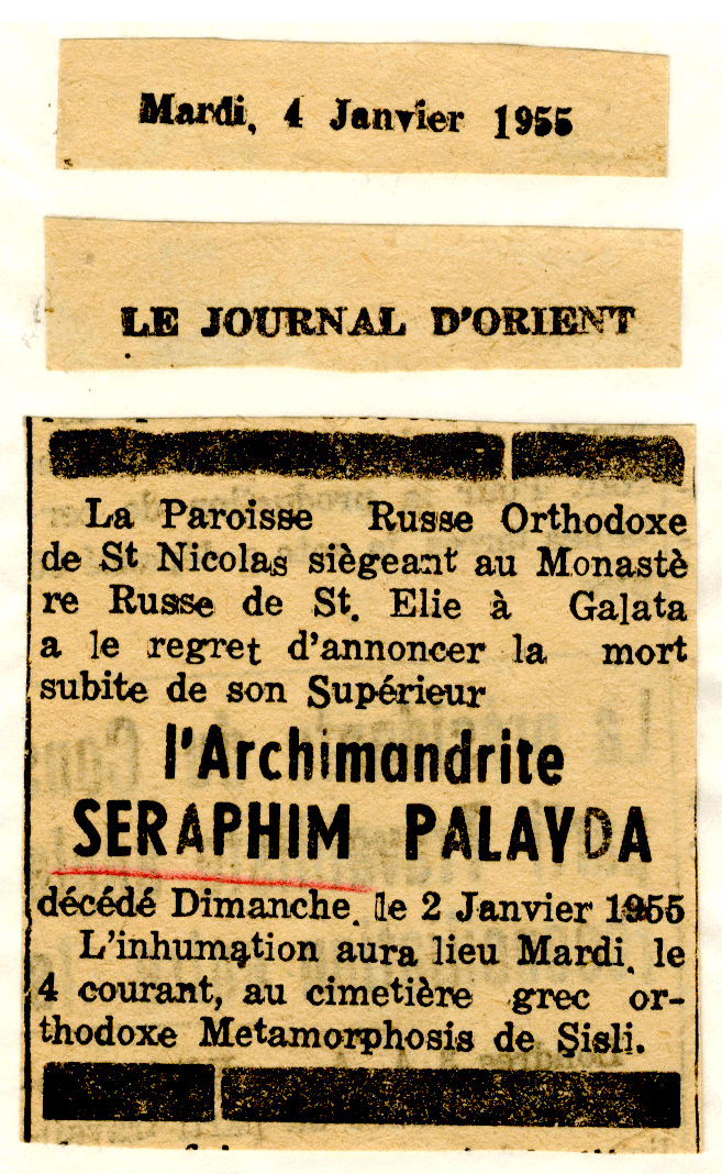 Article about death of Archimandrite Seraphim, 1955, scan copy from Archive of The Russian Orthodox Church Outside of Russia